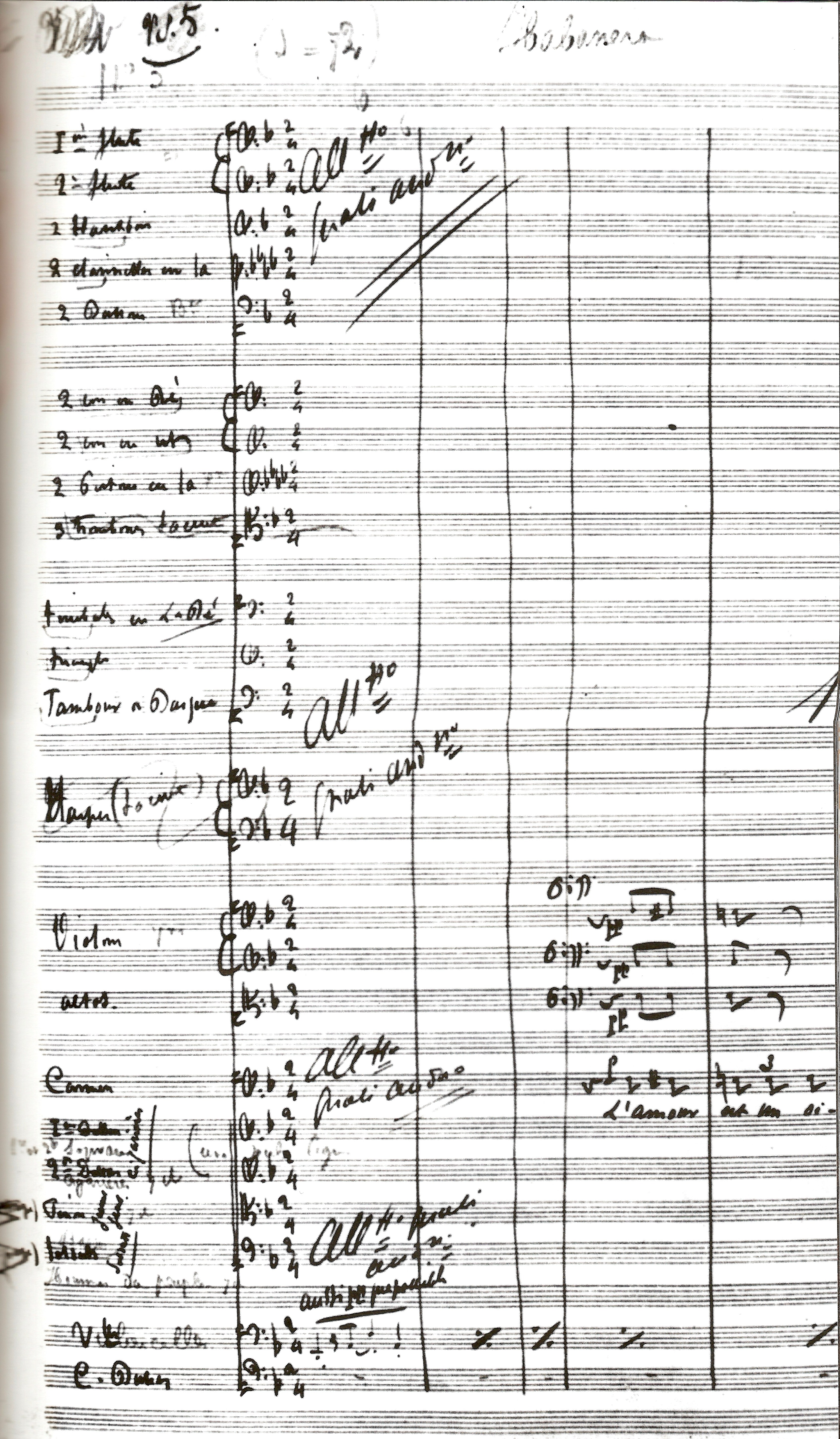 Georges Bizet's manuscript of Habanera (L'amour est un oiseau...)